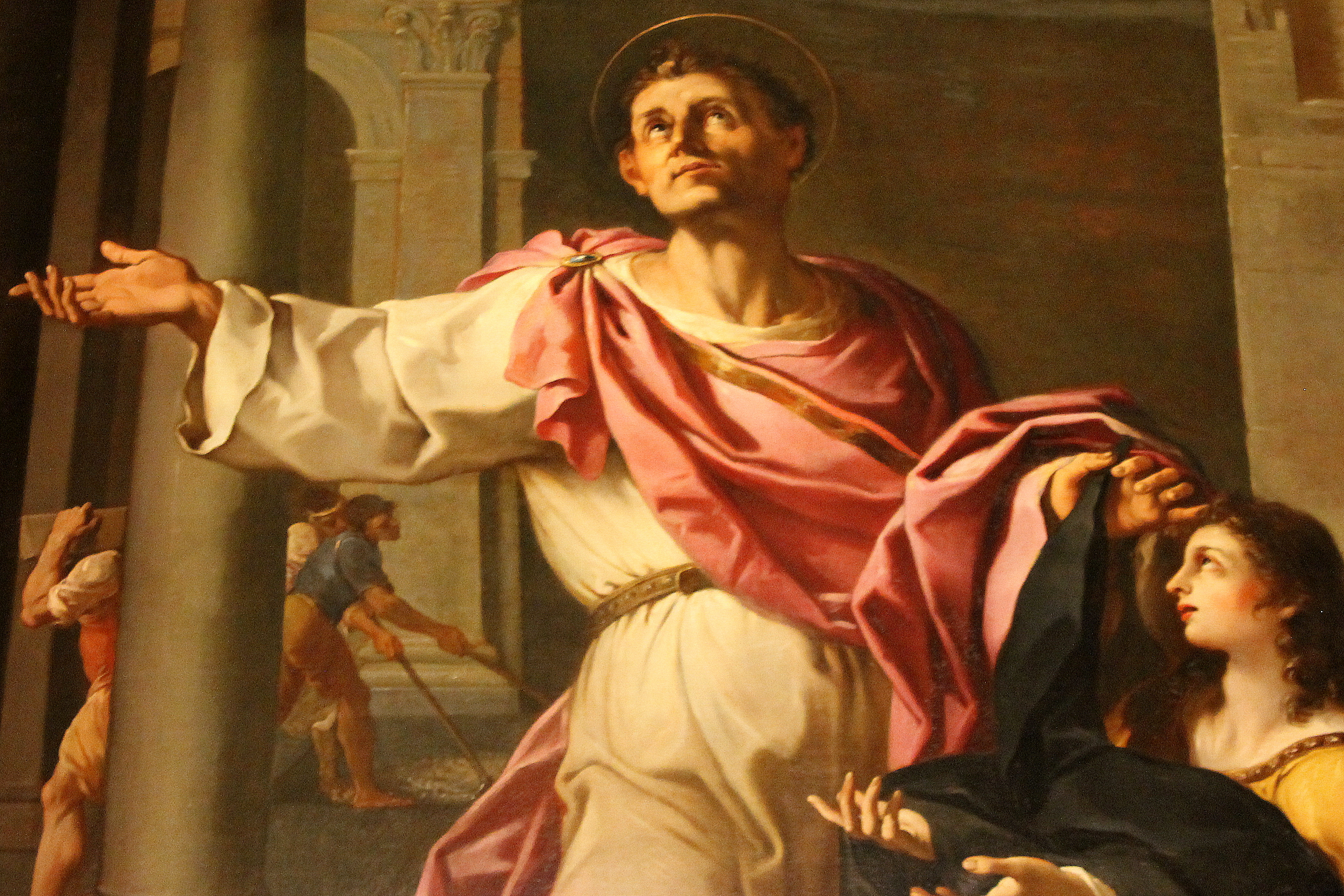 A painting of Saint Pammachius above a side altar in the Basilica of Ss. Giovanni e Paolo in Rome.